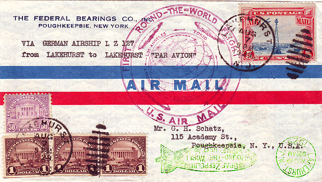 Cover carried on the airship DLZ127 "Graf Zeppelin" from Lakehurst to Lakehurst on the "Round-the-World" flight, August 8 - September 4, 1929. It required $3.55 in U.S. postage, the equivalent today of about $43 if based on the CPI.